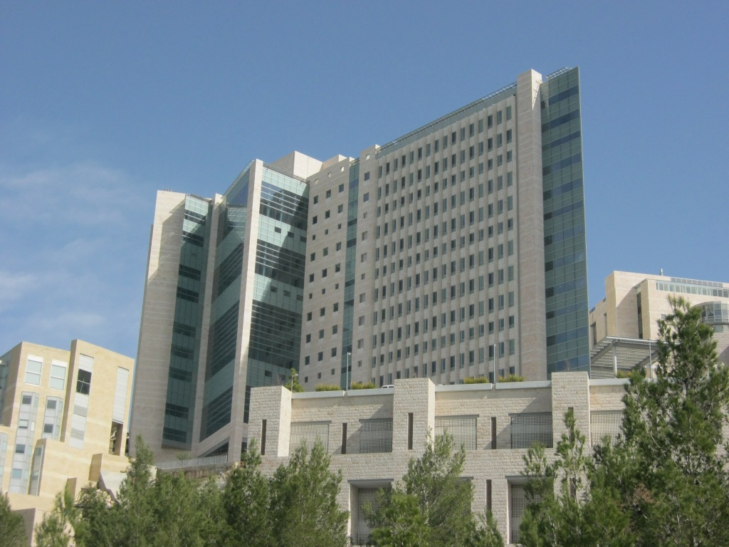 Davidson Tower, Hadassah Ein Kerem Medical Center Campus, Jerusalem, Israel